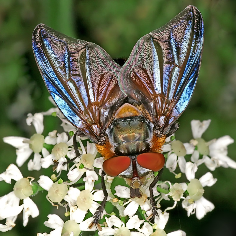 Phasia hemiptera, Trodds Copse, Hampshire, England